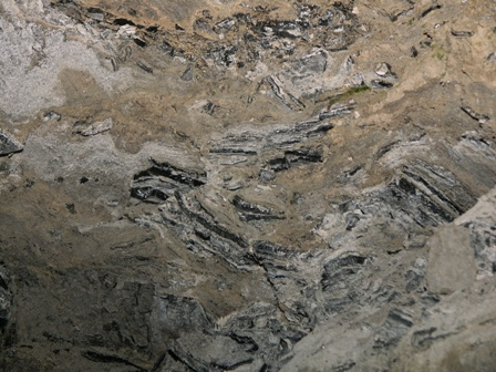 ObsidianVeinsAtBenLomond - photo taken and uploaded by Paul Moss, Photographer, Artist, Paul Moss Photographer Artist NZ